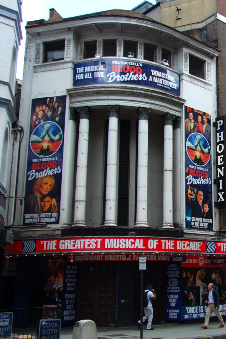 A photo of the Phoenix Theatre, London taken by myself.